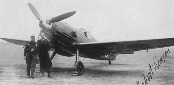 Imperial Japanese Army Air Force purchased five E-7s in 1941. The aircraft were used for tests and trials.